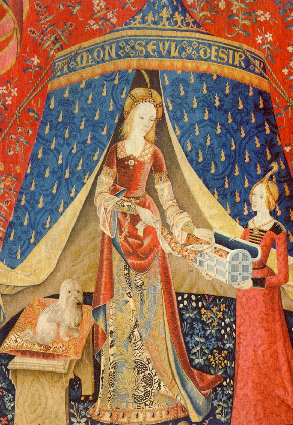 The Lady and the Unicorn (French: La Dame à la licorne) also called the Tapestry Cycle is the title of a series of six Flemish tapestries depicting the senses. They are estimated to have been woven in the late 15th century in the style of mille-fleurs